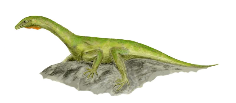 Protorosaurus speneri, a prolacertiformes from the Upper Permian of Germany, pencil drawing.